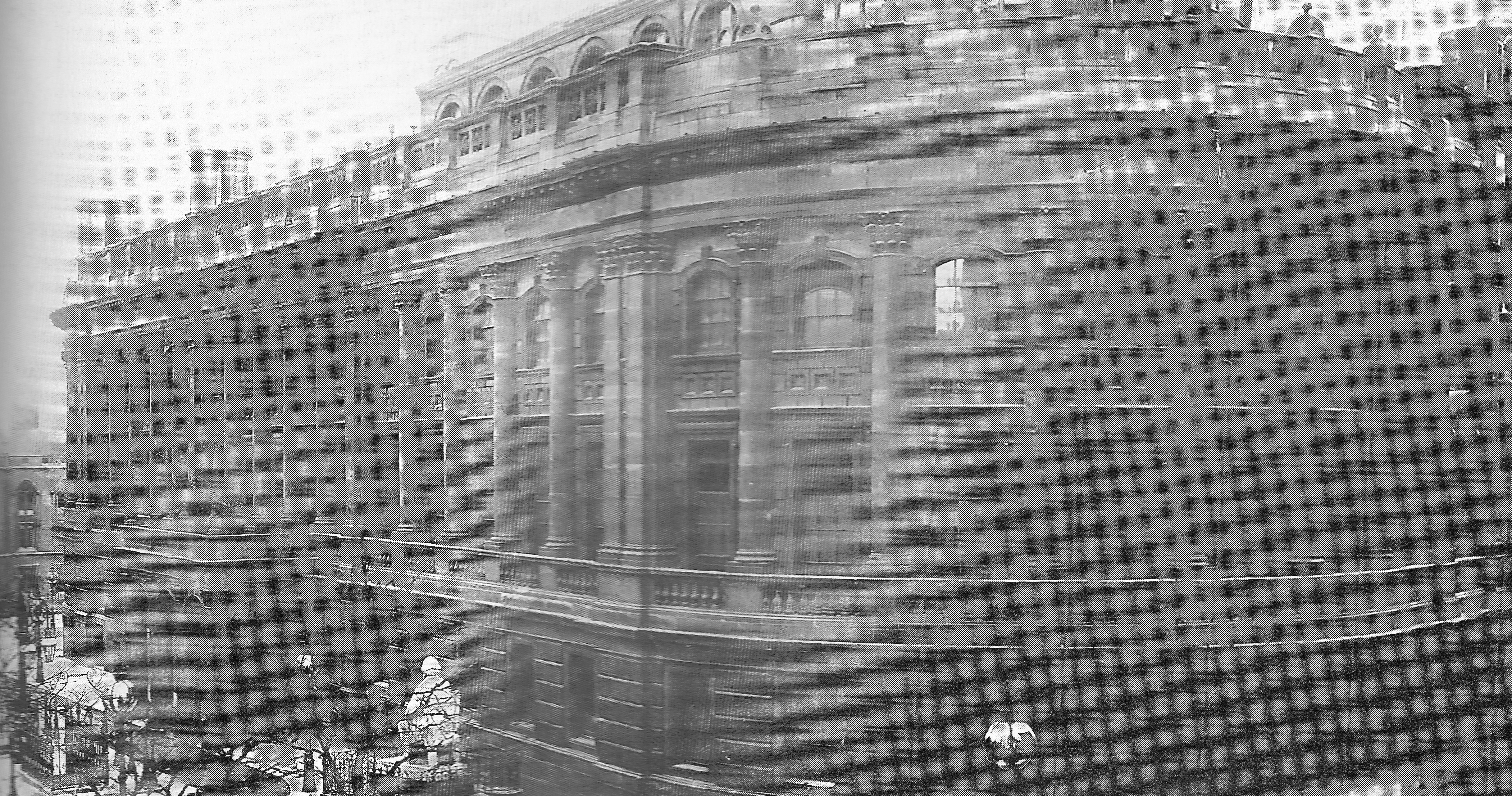 Birmingham Central Library, photographed c.1890. The Central Library lay behind the Town Hall: it was rebuilt in 1882 after the previous library had been destroyed by fire in 1879, and was demolished in the 1970s to make way for a short length of road. Architect: J. H. Chamberlain.